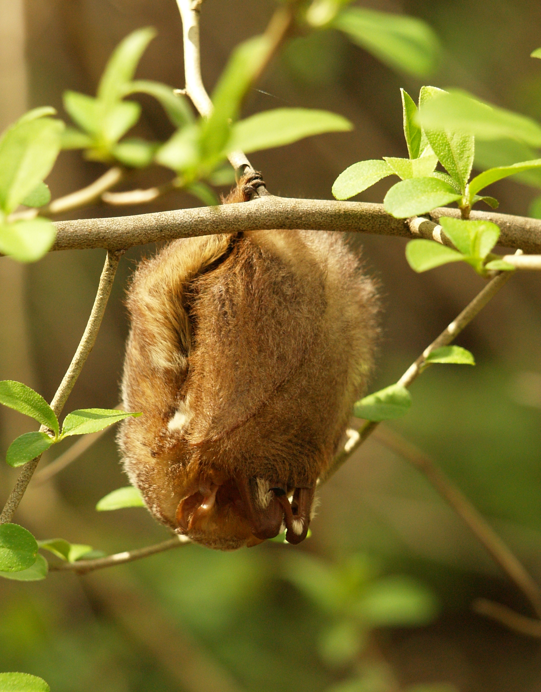 Eastern red bat (Lasiurus borealis), roosting at "Griffy lake," Bloomington, IN.